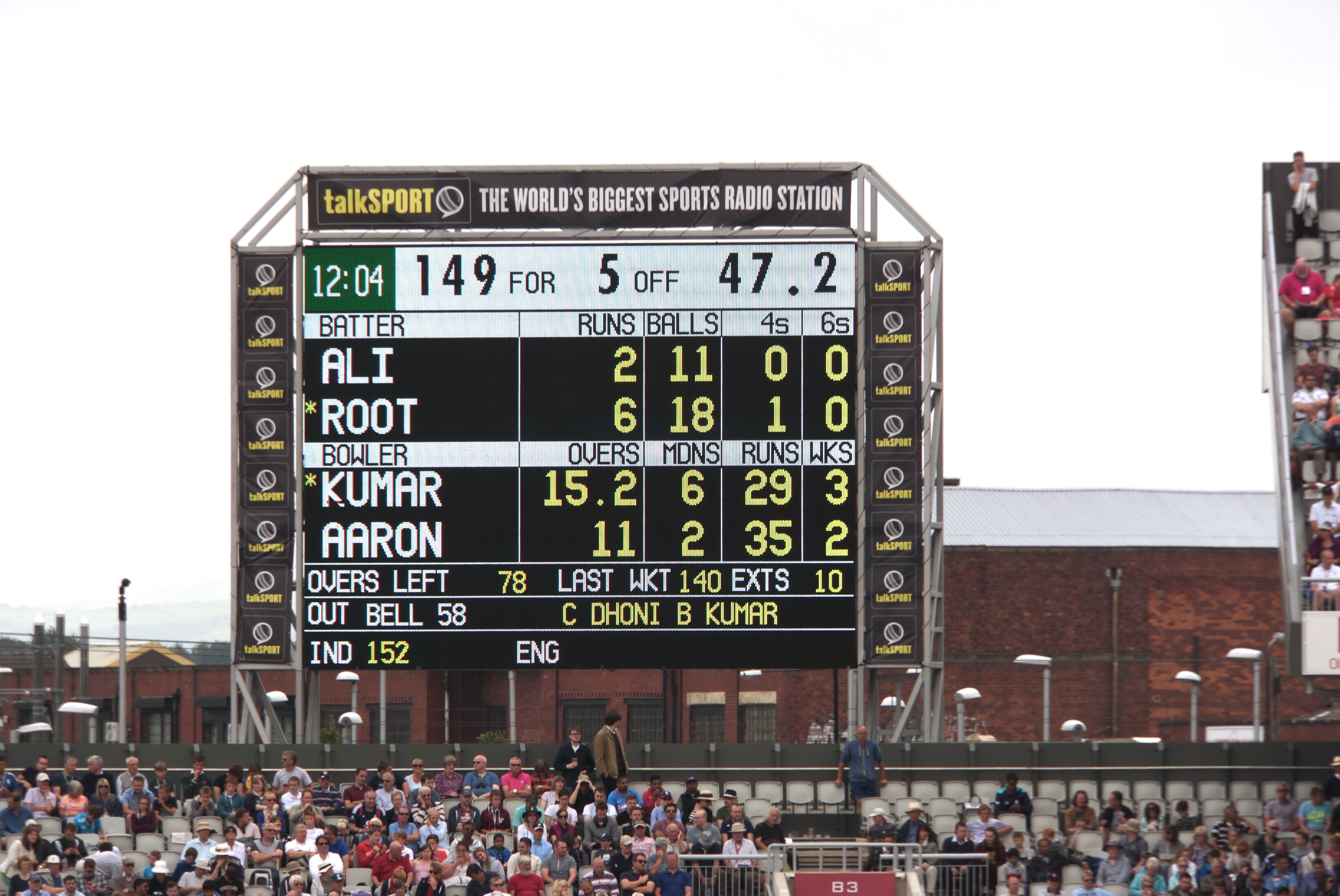 At the Cricket 5